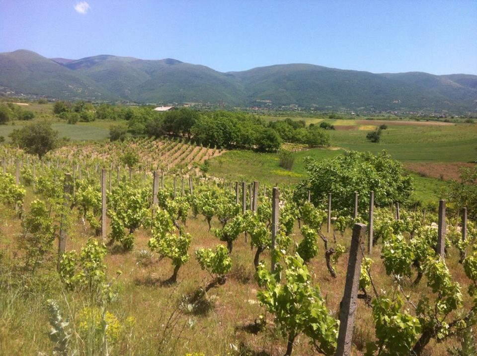 Vineyard in Rastanski lozja